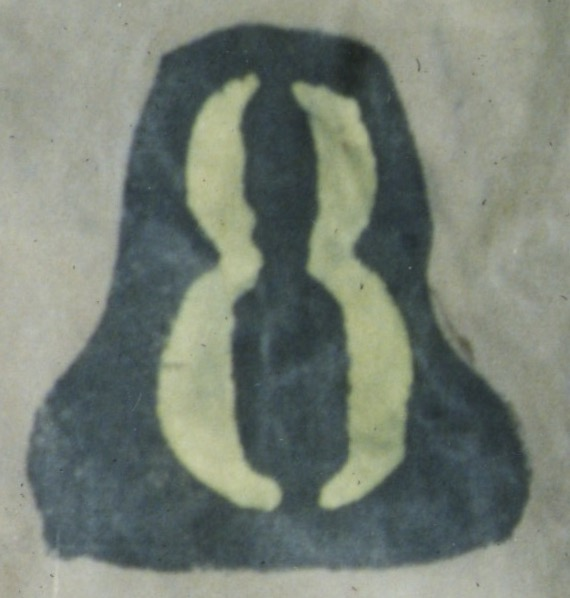 AWS-8 Tac Mark on the side of a seabag belonging to Colonel Carl Mahakian. Col. Mahakian was a Sergeant with AWS-8 in 1944-45.